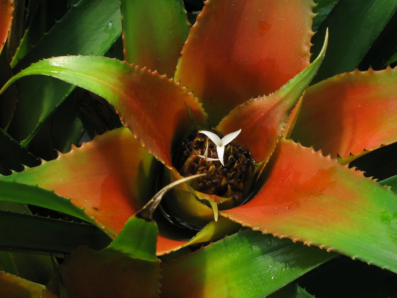 Neoregelia wurdackii in cultivation at the Botanical Garden of Heidelberg, Germany.